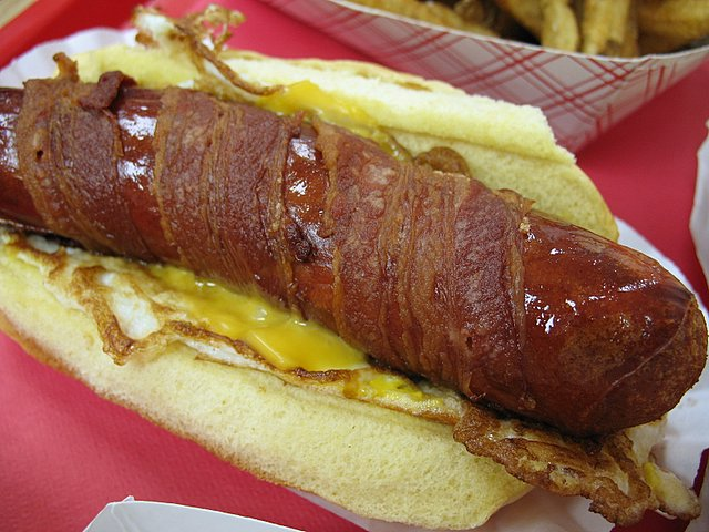 A deep fried "Jersey Breakfast" dog, wrapped with bacon and served over a fried egg and melted cheese, from "Amazing Hot Dog"